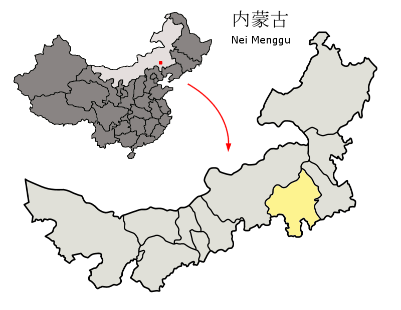 Location of Chifeng Prefecture (yellow) within Inner Mongolia Autonomous Region of China Map drawn in november 2007 using various sources, mainly : Inner Mongolia Autonomous Region administrative regions GIS data: 1:1M, County level, 1990 Inner Mongolia Counties map from